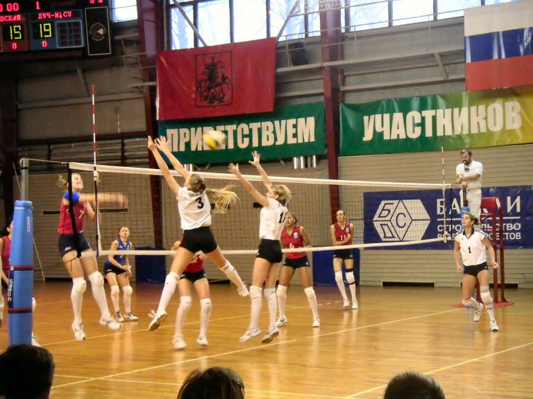 Russian volleyball championship - December 14, 2004. Luch MGSU vs Balakovskaya AES